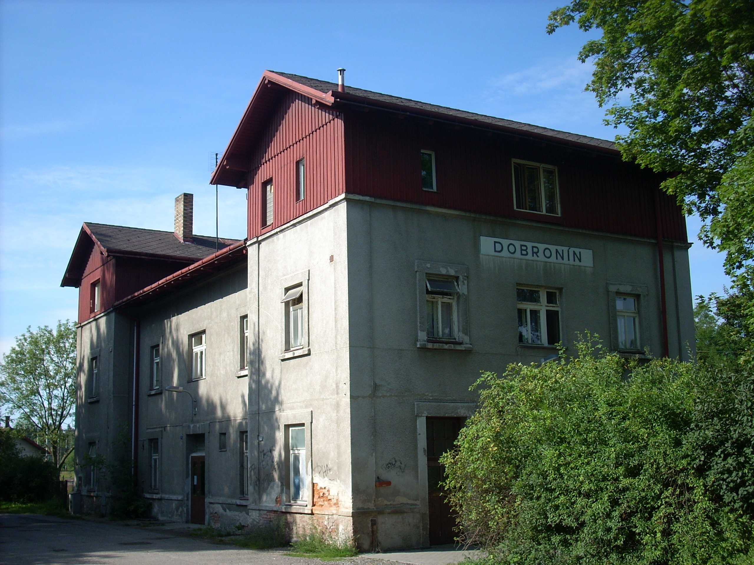 Dobronín, train station